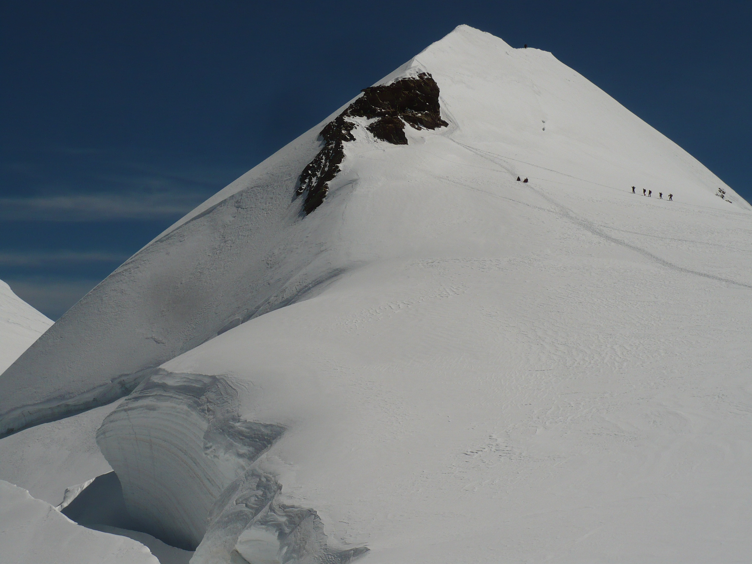 Parrotspitze fron Lysjoch - Monte Rosa Massif - Pennine Alps